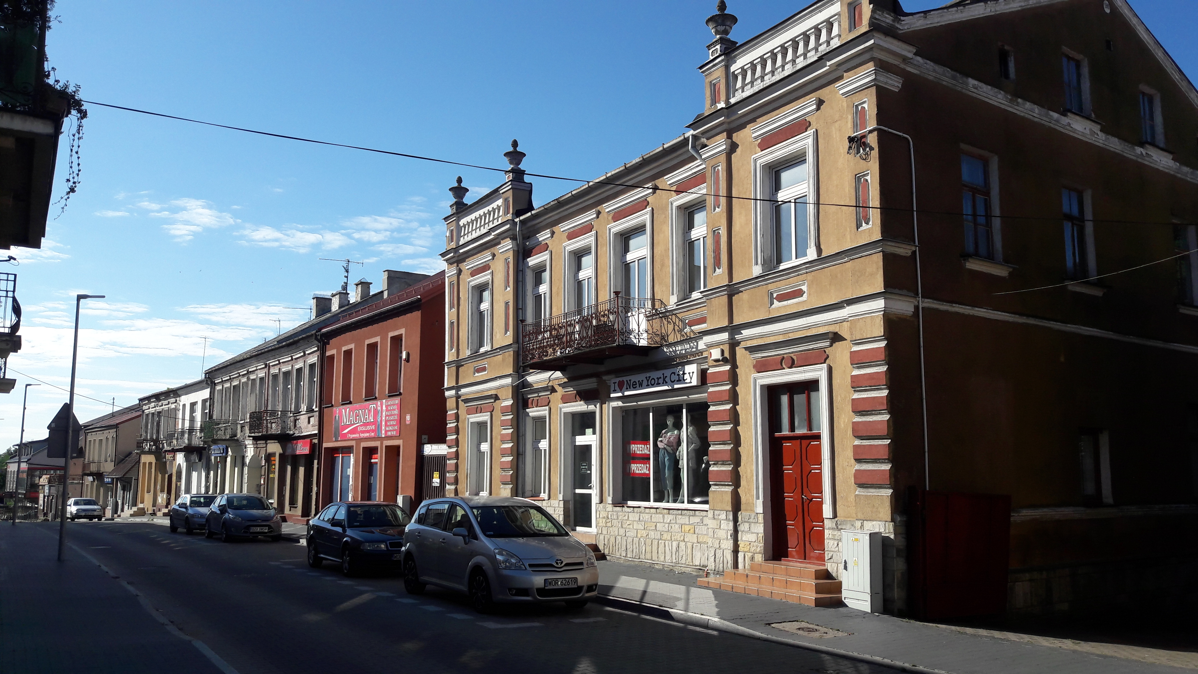 Kamienice